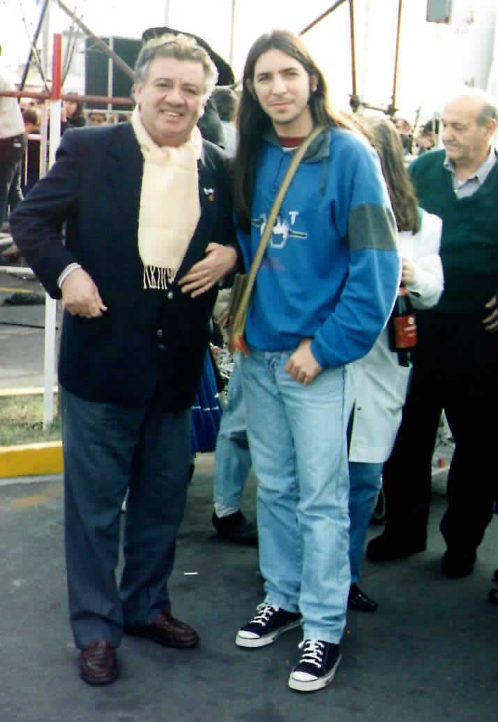 Luis Blaugen-Ballin and Oscar Cacho Tirao